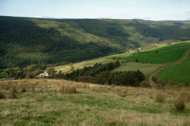 The Afan Valley by Duffryn and Cynonville A view of the forested valley from a bridleway which descends towards Cynonville from Foel Trawsnant.